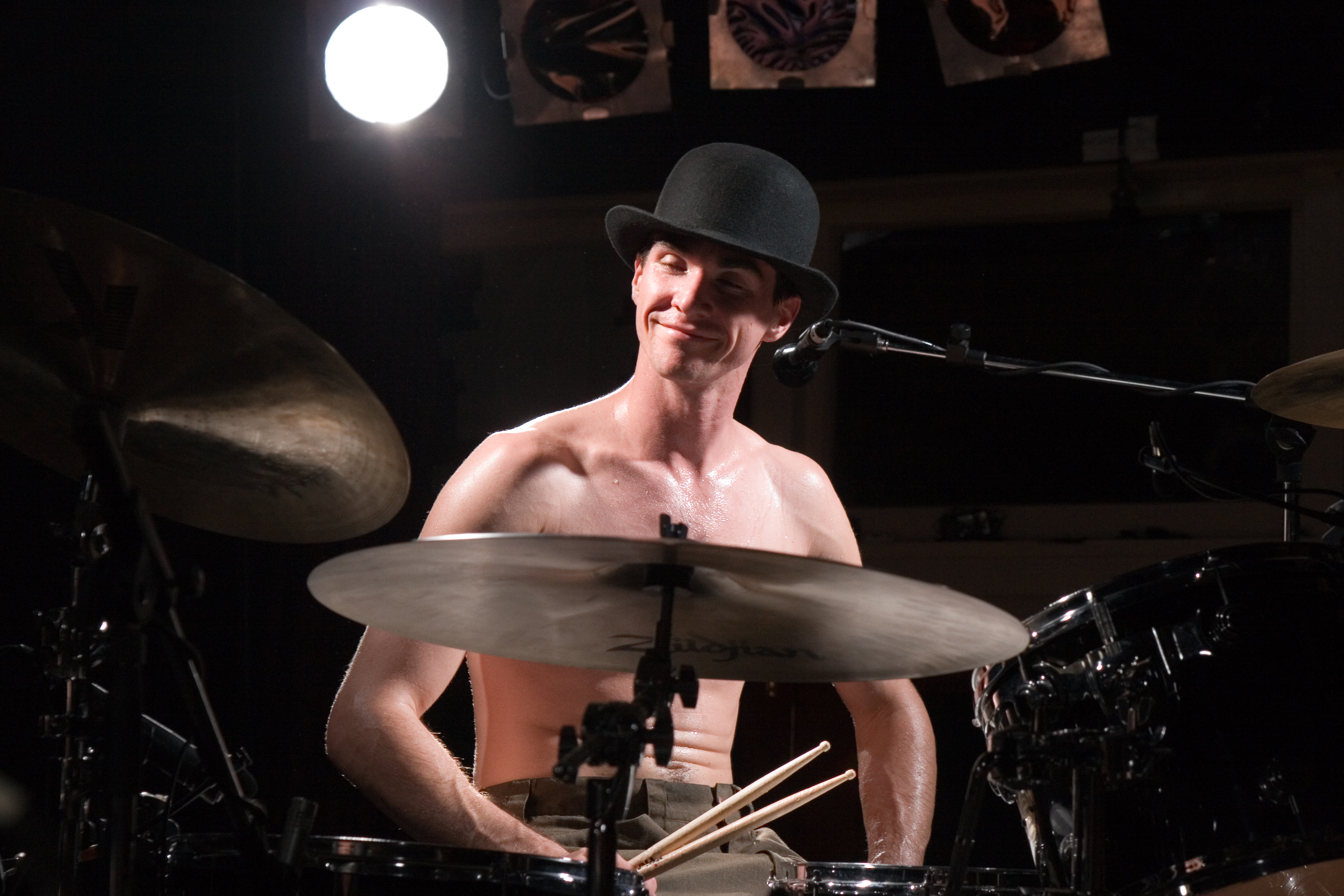 Brian Viglione performing with The Dresden Dolls at Kings Arms Tavern in Auckland, New Zealand